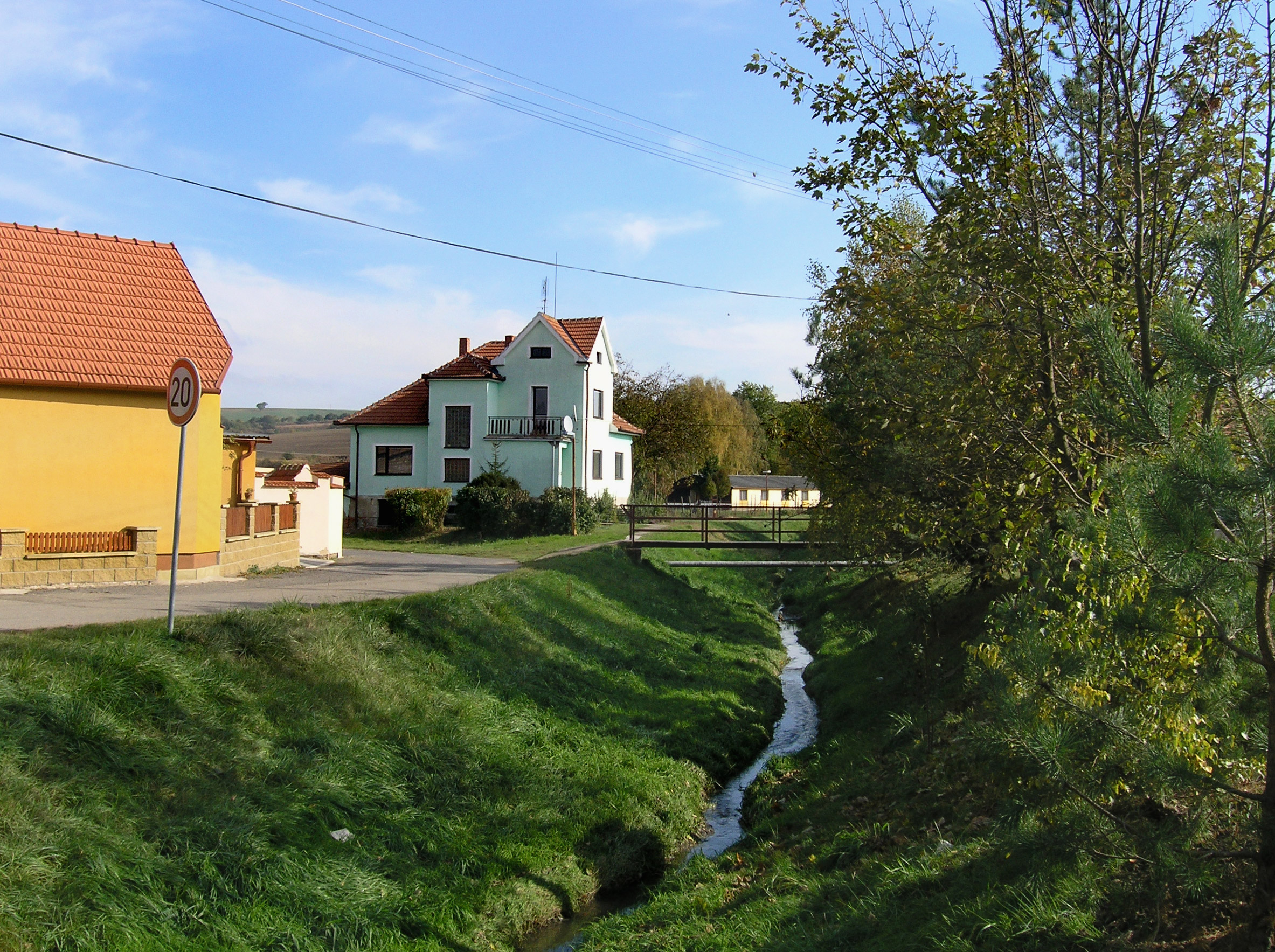 Kašnice Creek in Krumvíř, Czech Republic